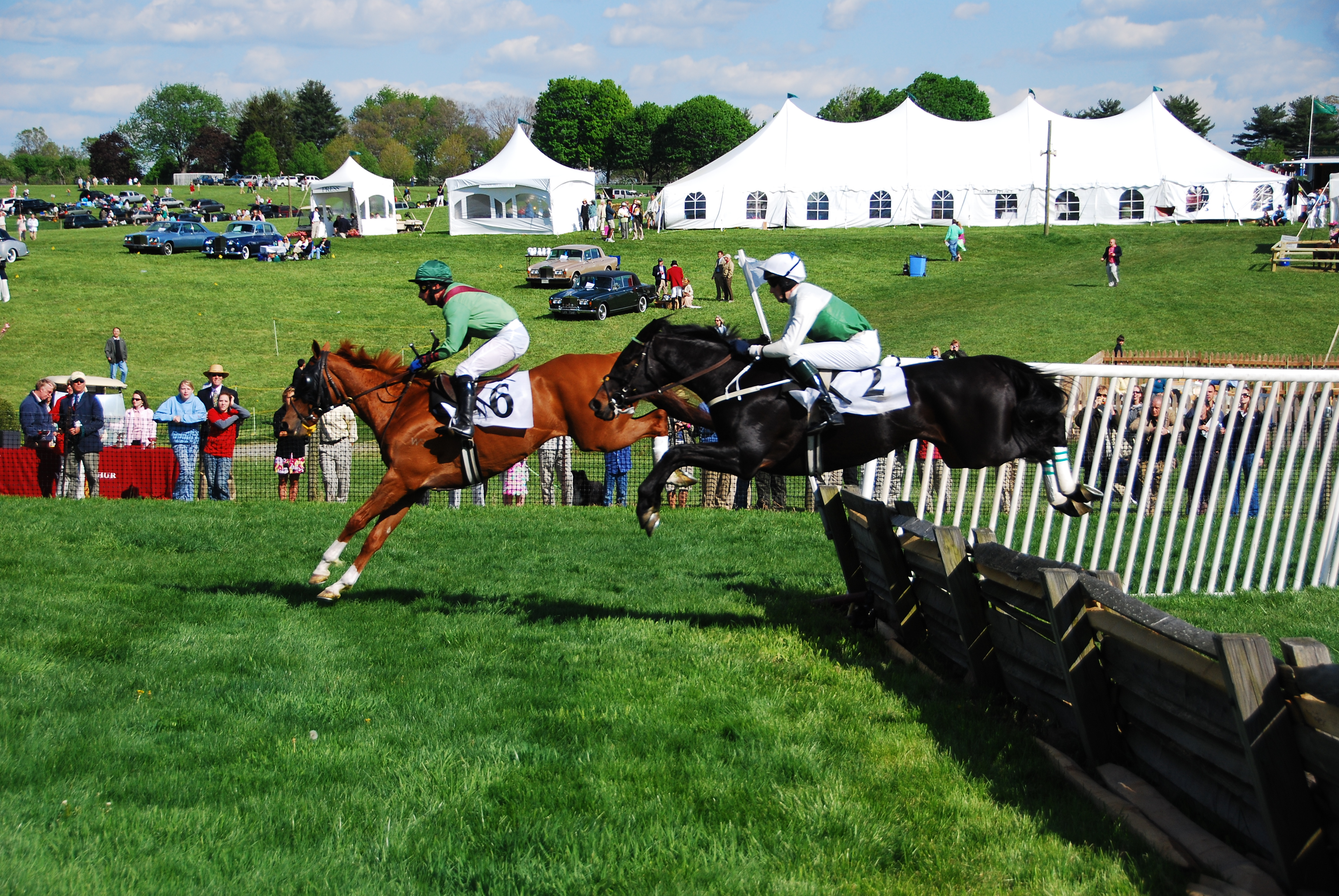 Horses in the air, during a timber race at Winterthur.